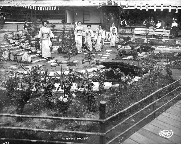 Japanese garden, Japanese Village, Pay Streak, Alaska Yukon Pacific Exposition, Seattle, 1909. Photographer: Nowell, Frank H., 1864-1950 Subjects (LCSH): Japanese Gardens (Seattle, Wash.) Japanese gardens--Washington (State)--Seattle Street of Tokio (Seattle, Wash.) Women--Washington (State)--Seattle Ethnic costume--Washington (State)--Seattle Alaska-Yukon-Pacific Exposition (1909 : Seattle, Wash.) Exhibitions--Washington (State)--Seattle Digital Collection: Alaska-Yukon-Pacific Exposition Collection Item Number: AYP415 Persistent URL: University of Washington Libraries. Digital Collections [#//content.lib.washington.edu%20